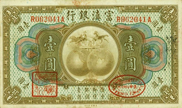 A Yunnanese provincial banknote issued by the Yunnan "Fu-Tien" Bank during the time that the government of the Republic of China administered the Chinese Mainland.